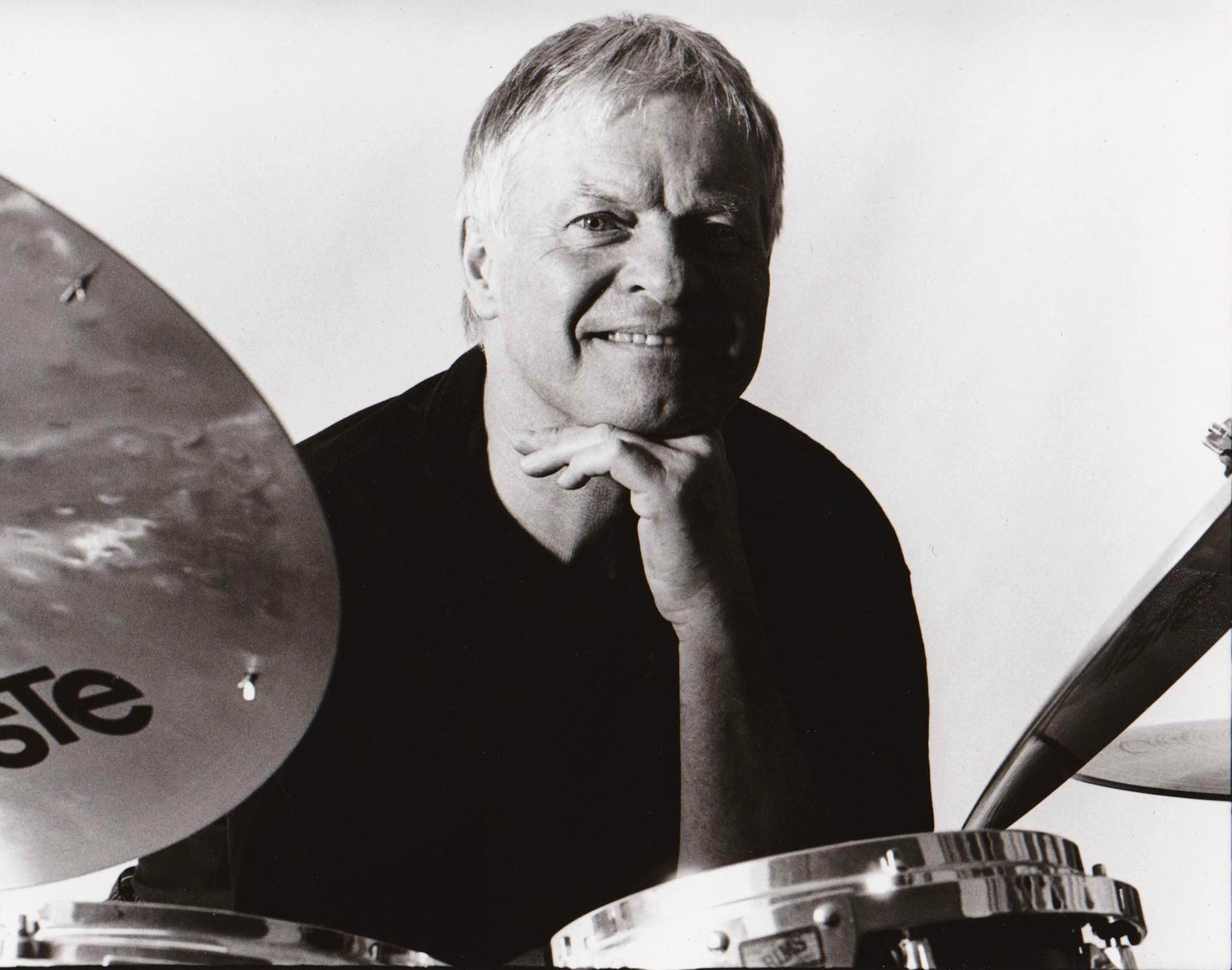 Photo depicts Alex Riel behind drumset